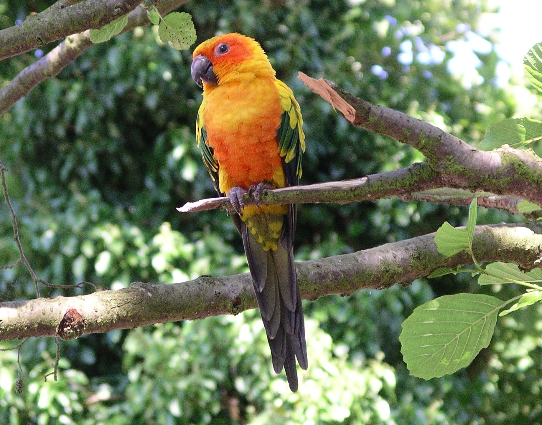 Photo of a Sun Conure in a tree at Birdland, Leicestershire, England. Someone on en wiki said that this photo was of a hybrid because of the colouration around its eyes, but another said is could be a true Sun Conure.